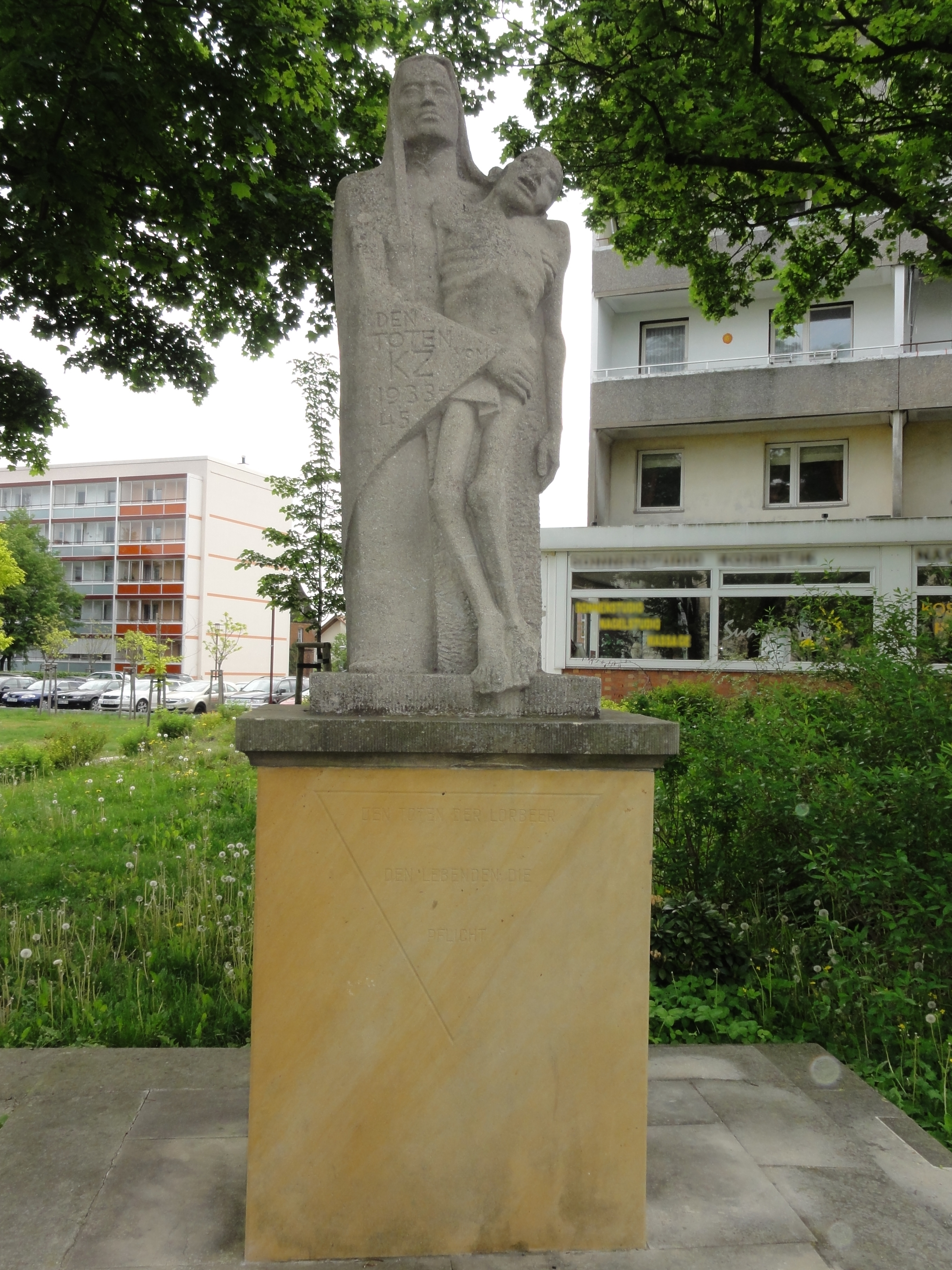 Memorial to the victims of the Concentration Camp in Weißwasser, Muskauer Straße; created by Gustav Seitz, erected after 1945; cultural heritage monument inscription: To the victims of the concentration camp 1933–45 laurels to the dead – obligation to the living